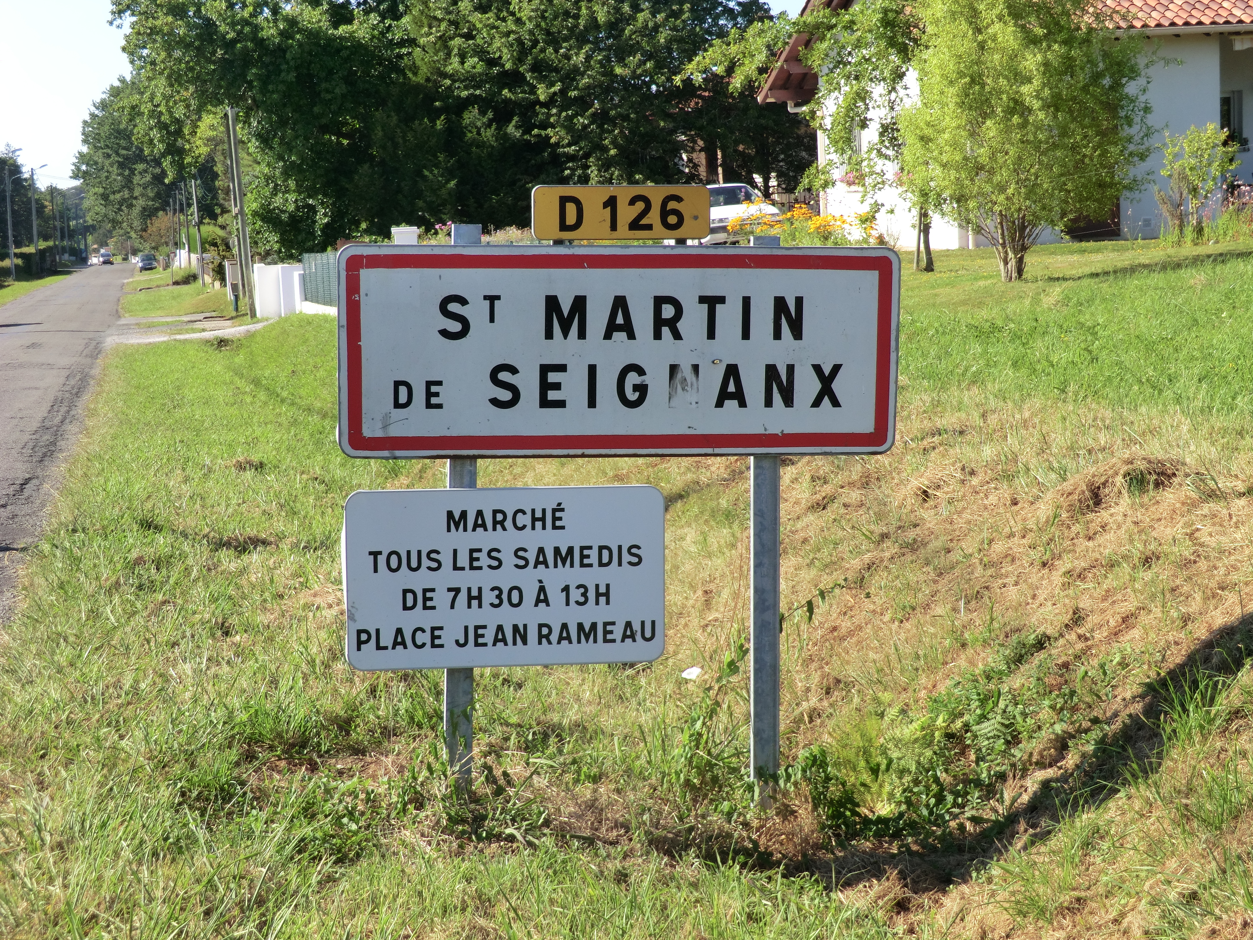 Saint-Martin-de-Seignanx: city limit signs.